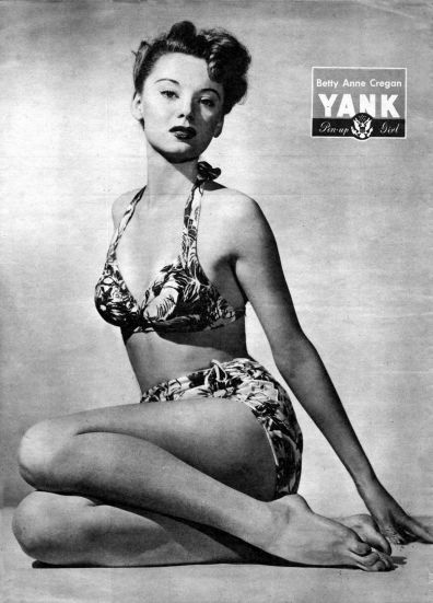 Pin-up photo of Betty Anne Cregan for the Dec. 7, 1945 issue of Yank, the Army Weekly, a weekly U.S. Army magazine fully staffed by enlisted men.